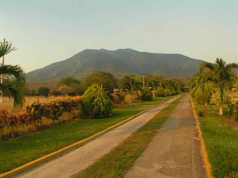 Maderas Volcano as seen from the South in Ometepe island, Nicaragua. Taken at the entry to the trail leading to the San Ramon waterfall.